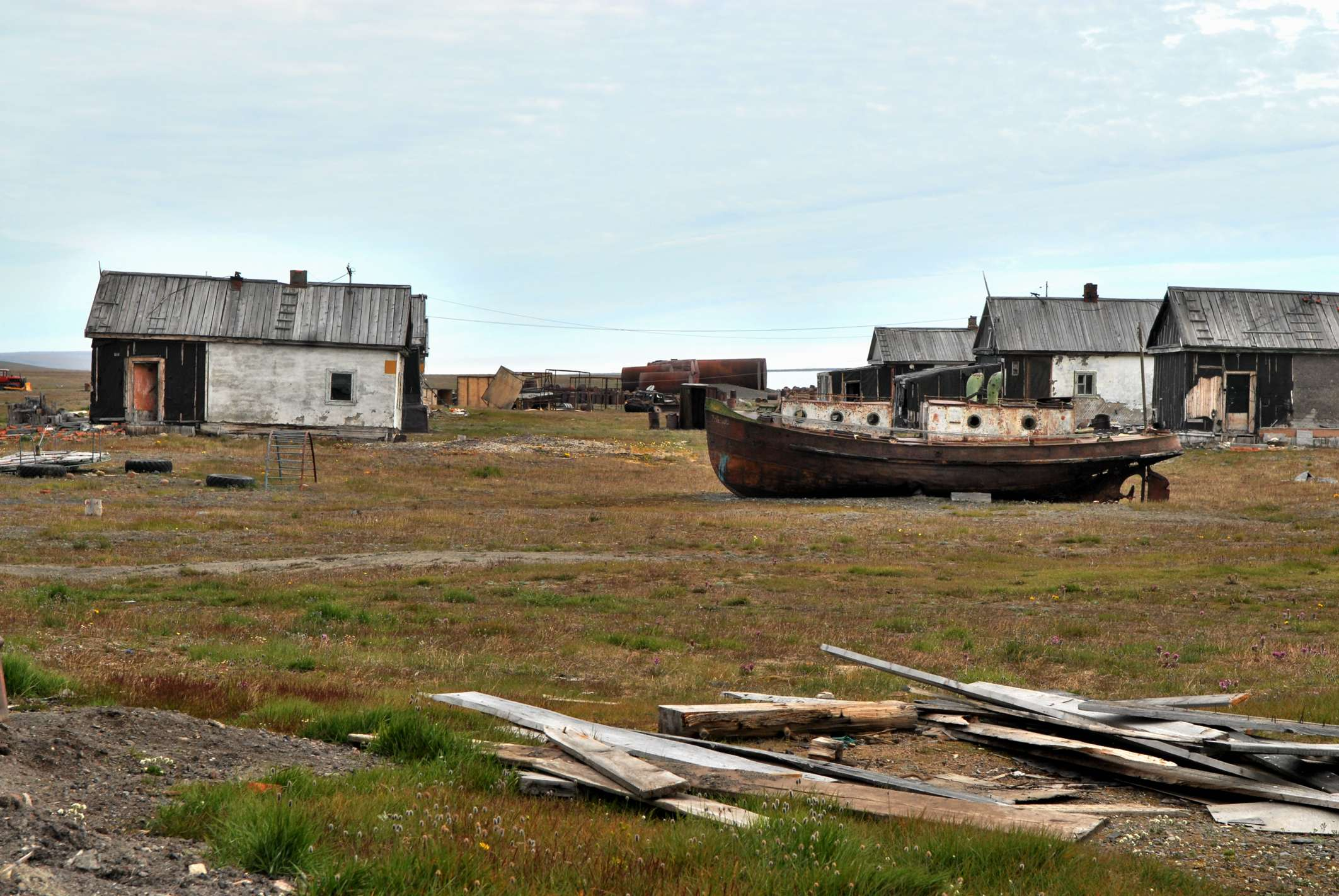 Abandoned village Ushakowskoje (Wrangel Island, Chukchi Sea, Russia)